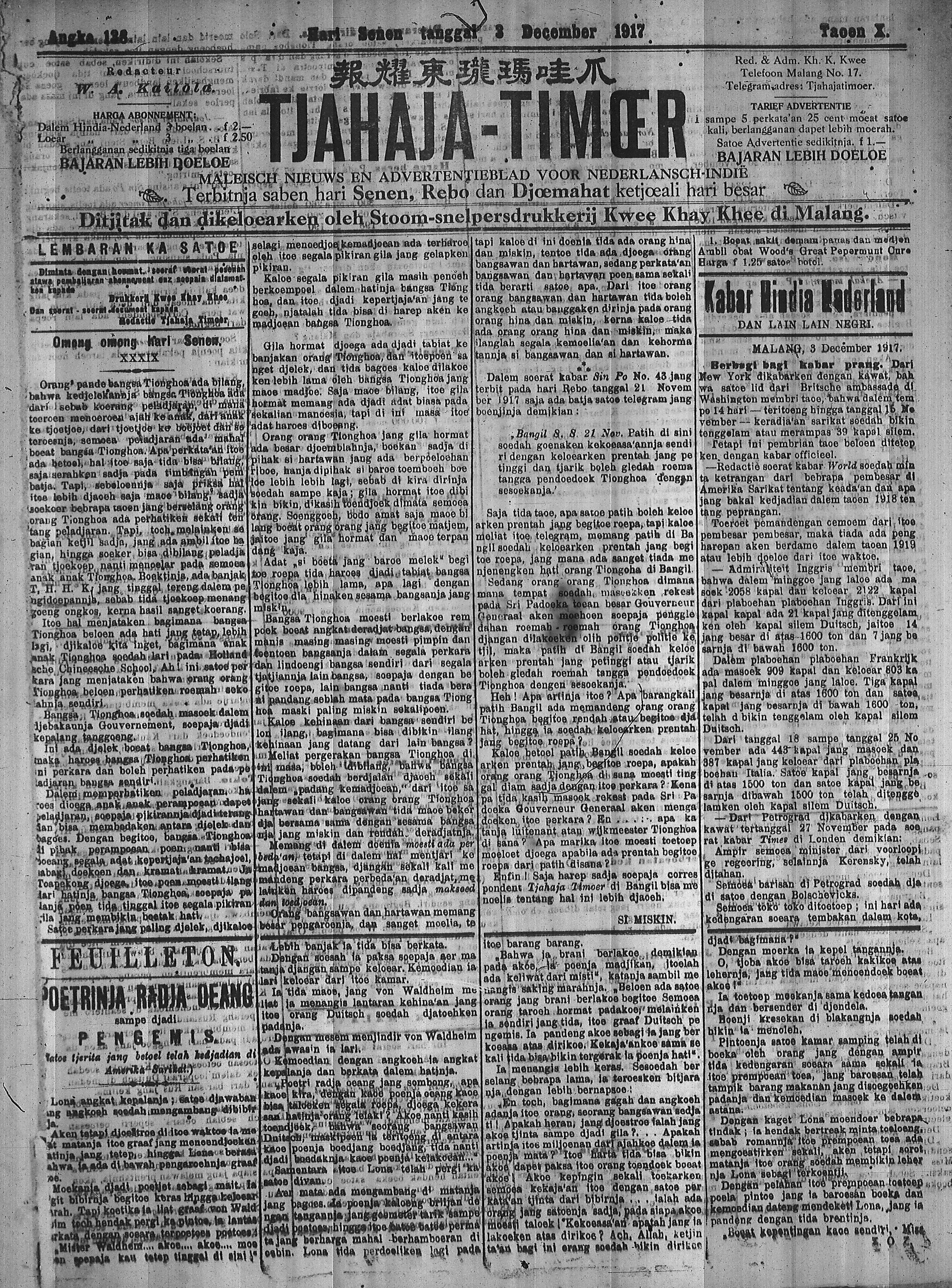 The front page of a Chinese-owned, Malay language newspaper from Malang, Dutch East Indies (now Indonesia), called Tjahaja Timoer (Light of the East). This image was scanned from a microfilm reproduction of the original newspaper.